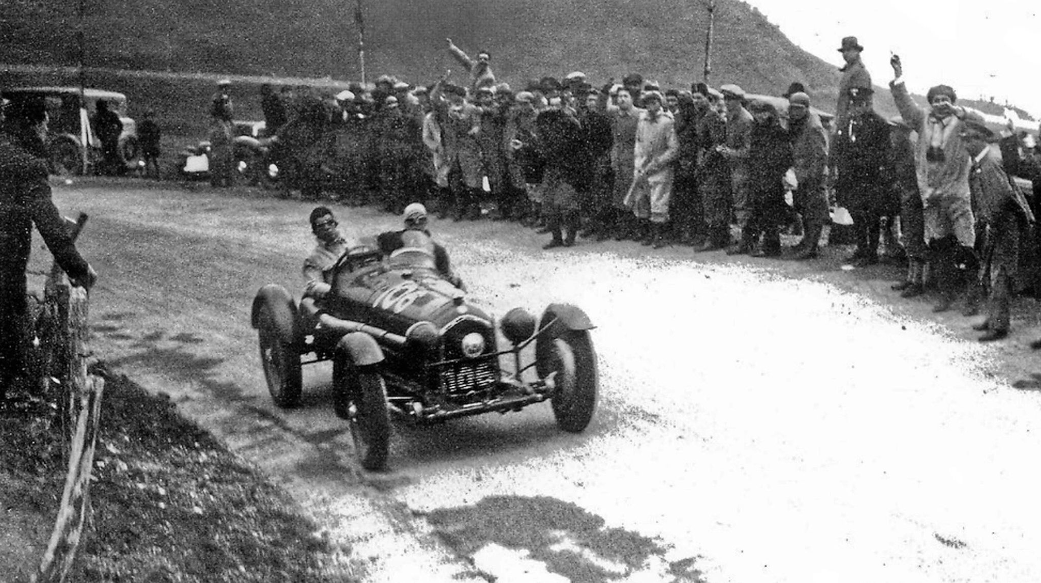 Winners of Mille Miglia on 14 April 1935 at Passo della Raticosa. Drivers are Carlo Pintacuda and co-driver Alessandro Della Stufa. Car is 1932 Alfa Romeo 8C 2900/P3 Tipo B 5001.[1]